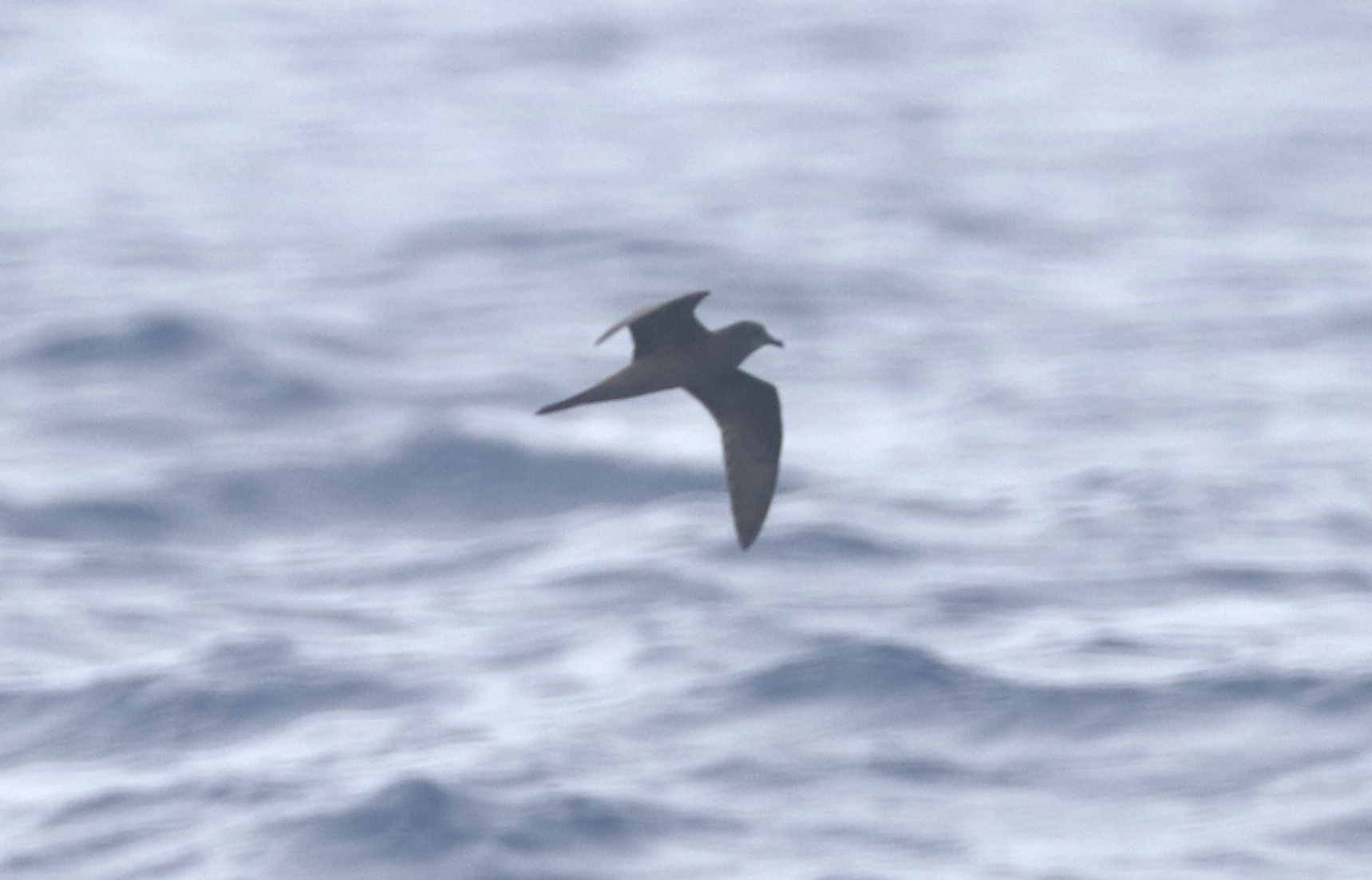 BULWER'S PETREL (4-27-2018) holo-holo boat, coast and lehua island, out of port allen, kauai co, hawaii -03